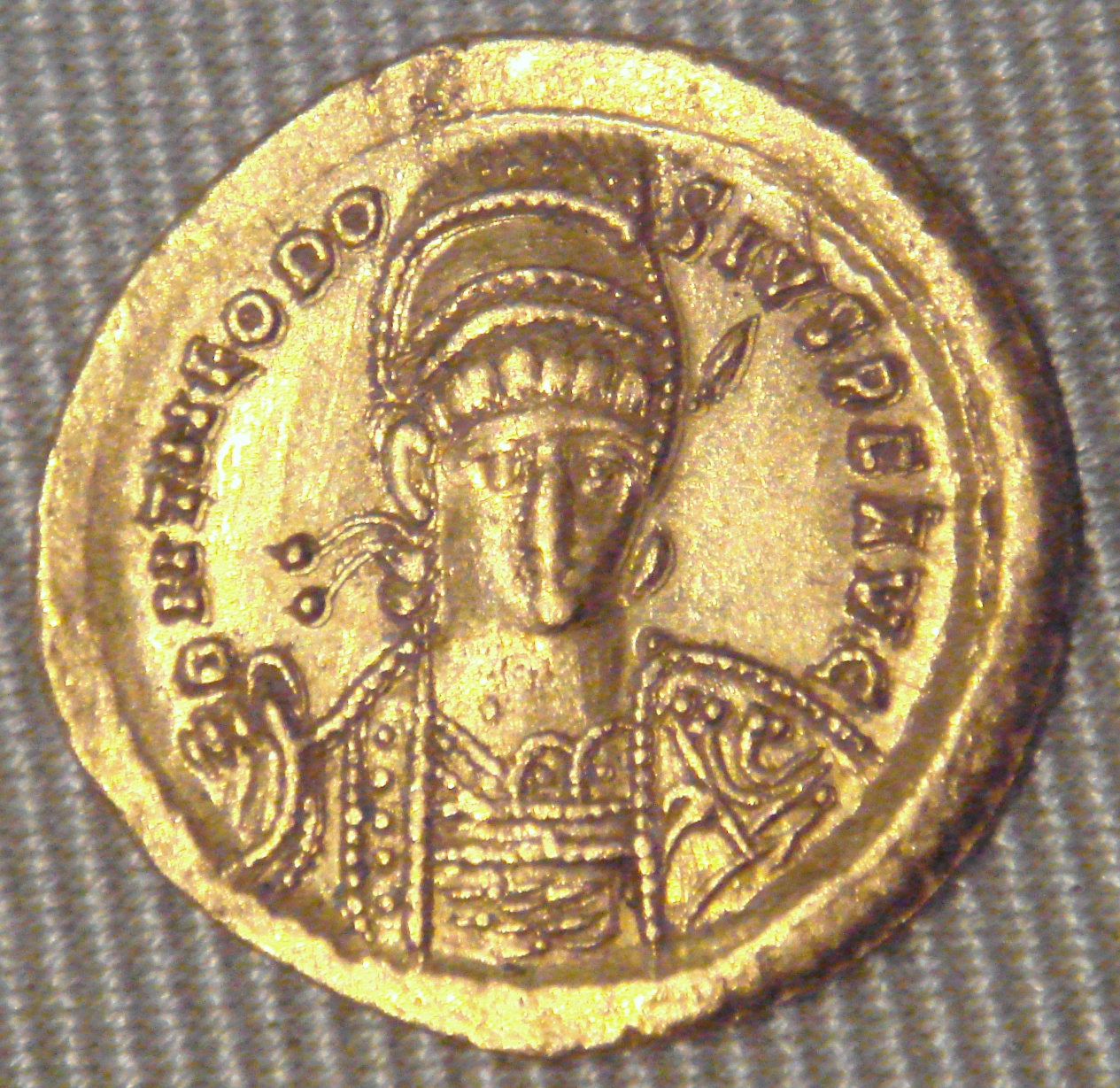 Theodosius_II_solidus_Constantinople_439_450_gold_4480mg